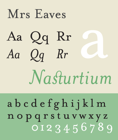 Specimen of the typeface Mrs Eaves, Jim Hood